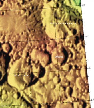 Color-coded Lac 52 from USGS Digital Atlas